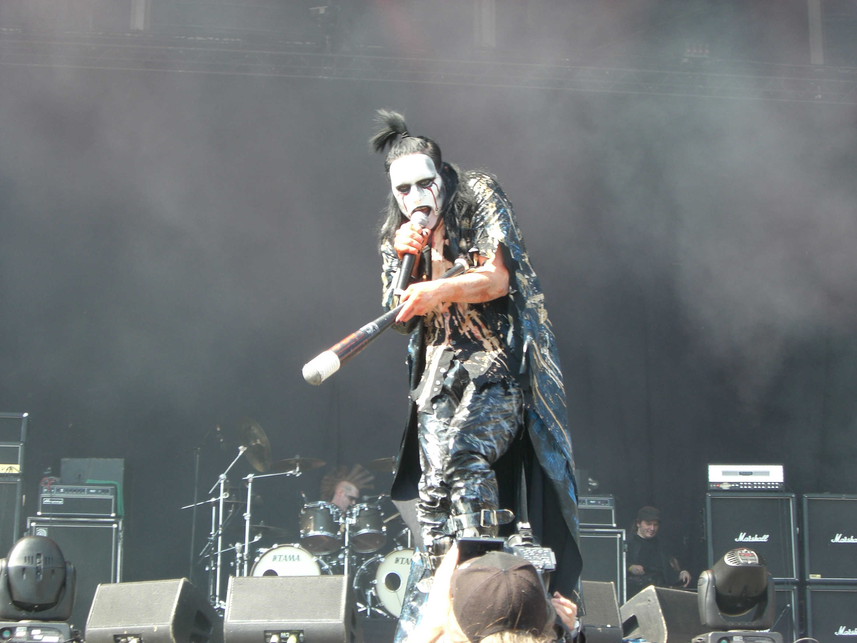 American Metal Band Lizzy Borden on stage at the Bang Your Head Festival 2008 in Balingen, Germany